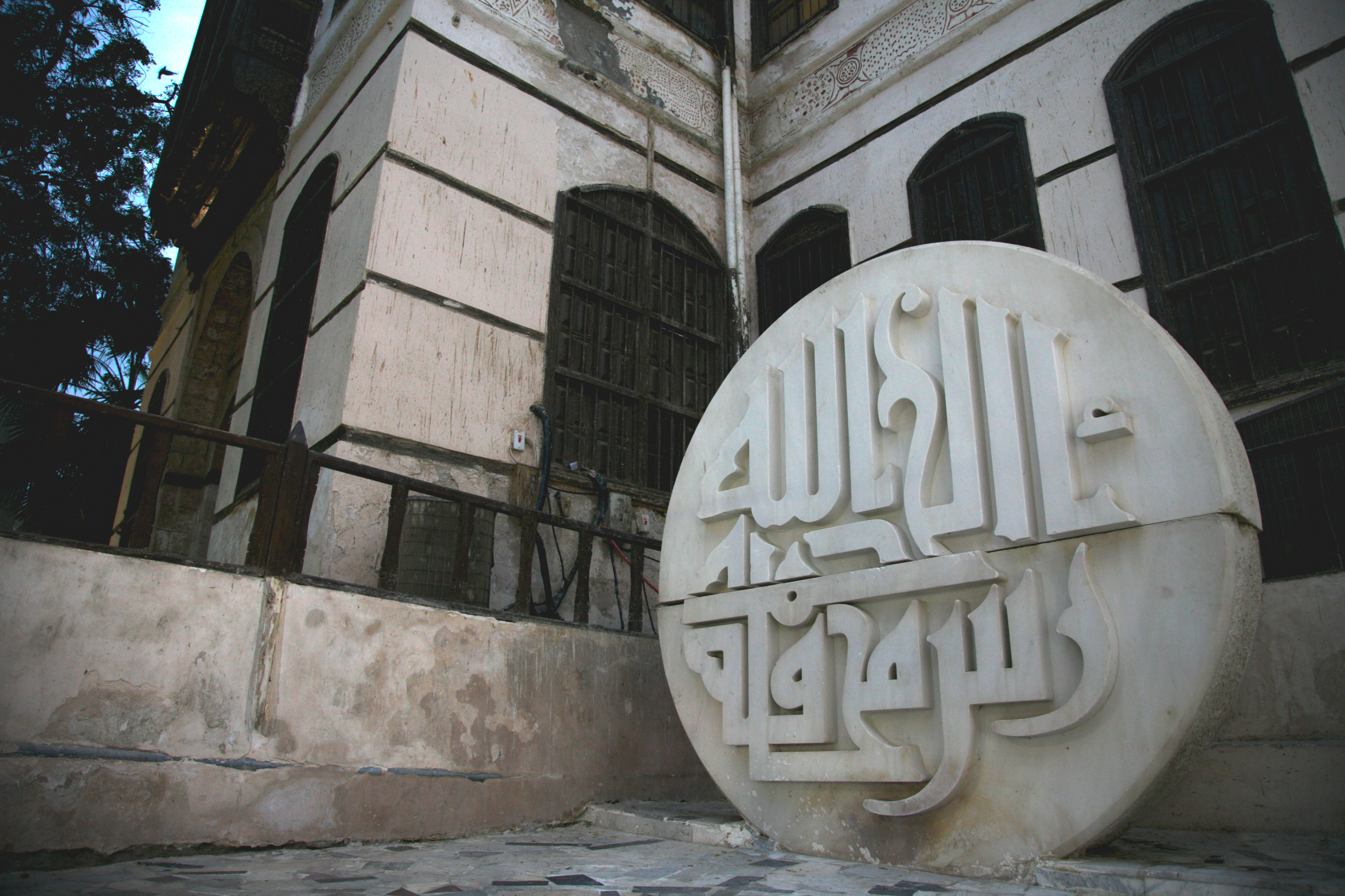 Naseef House.